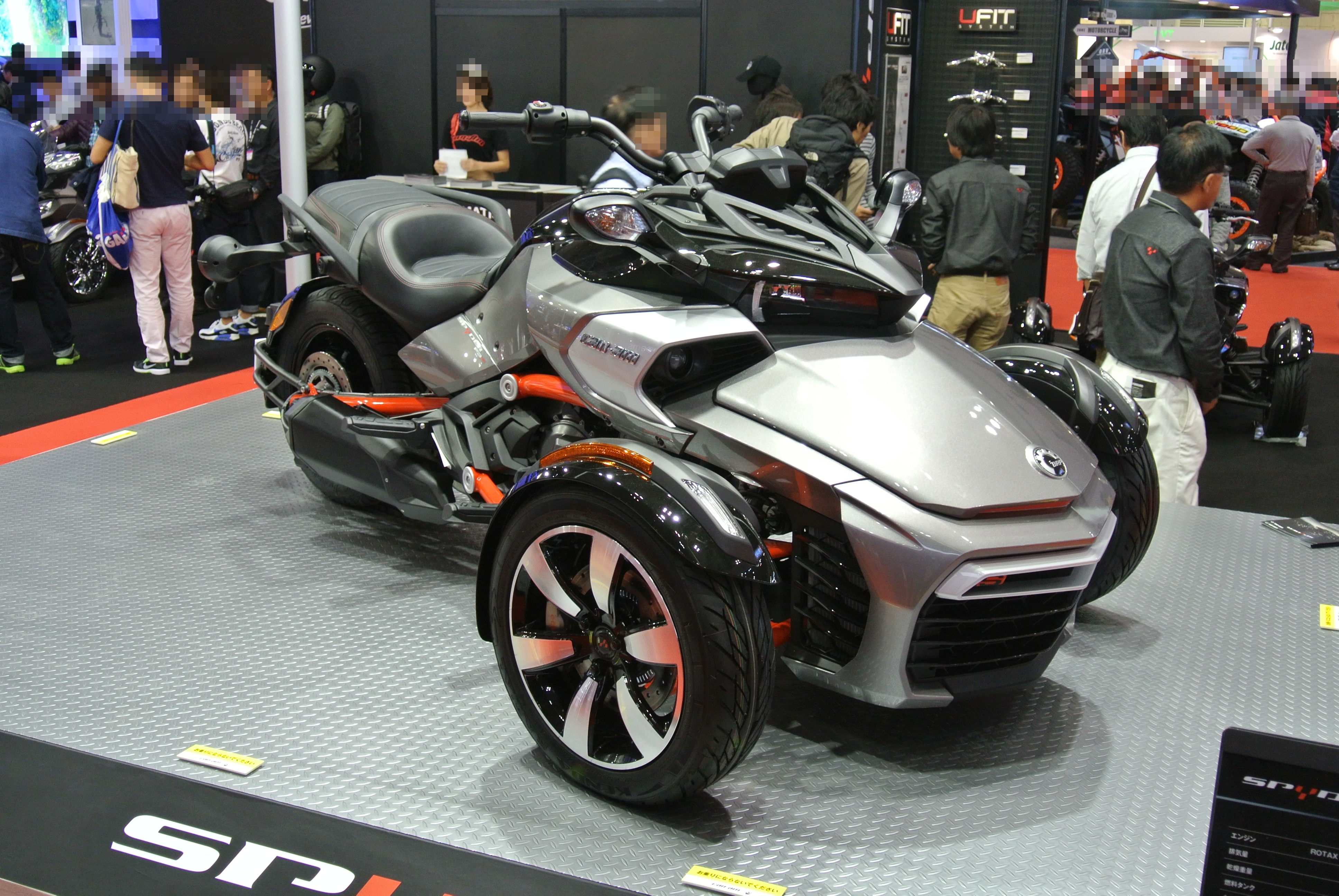 BRP Can-Am Spyder at the Tokyo Motor Show 2015.